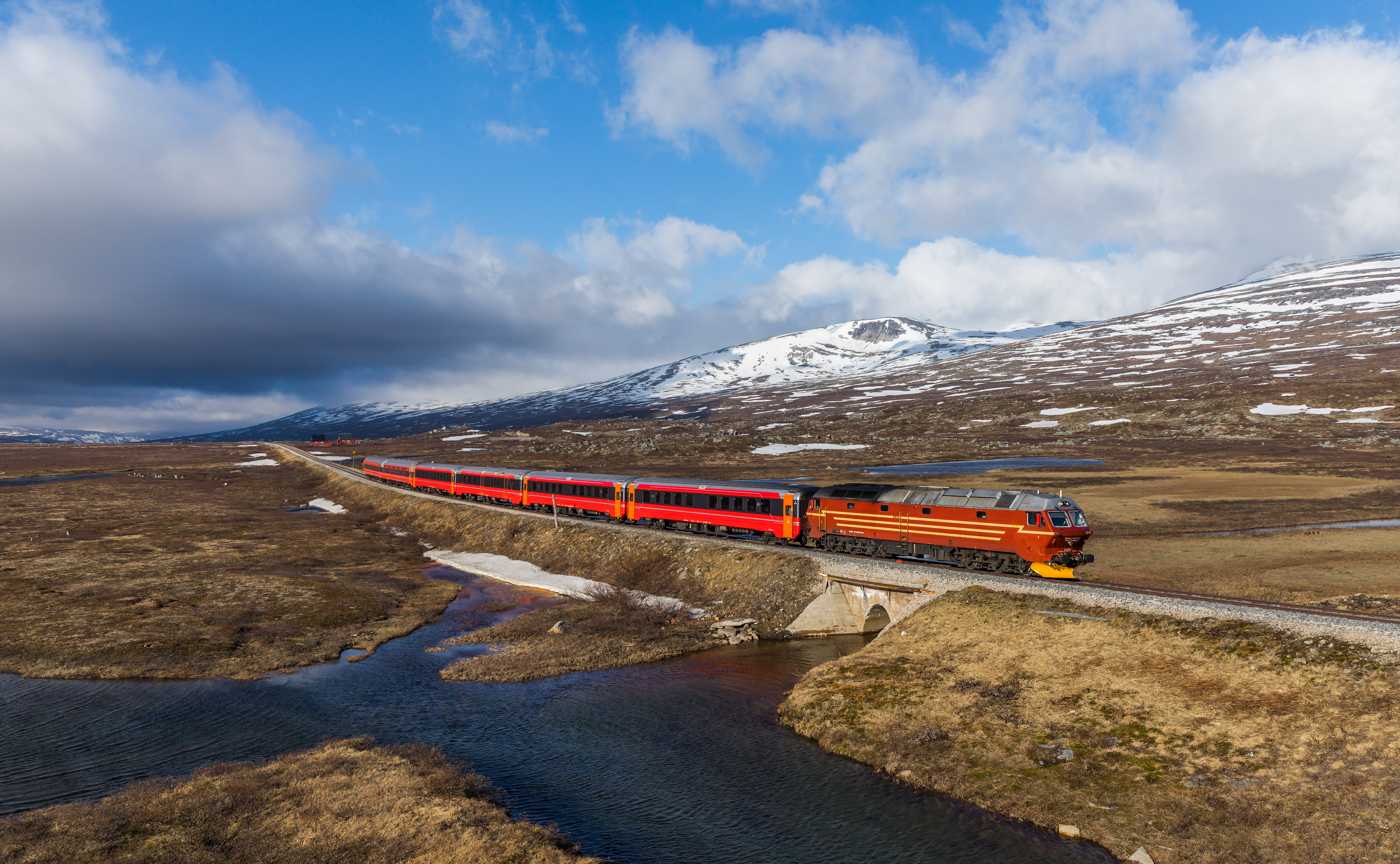 Norges Statsbaner's Di 4 654 hauls the daily night train from Trondheim to Bodø, Norway. The train has just reached the highest point of the Nordlandlandsbane on the Saltfjellet.